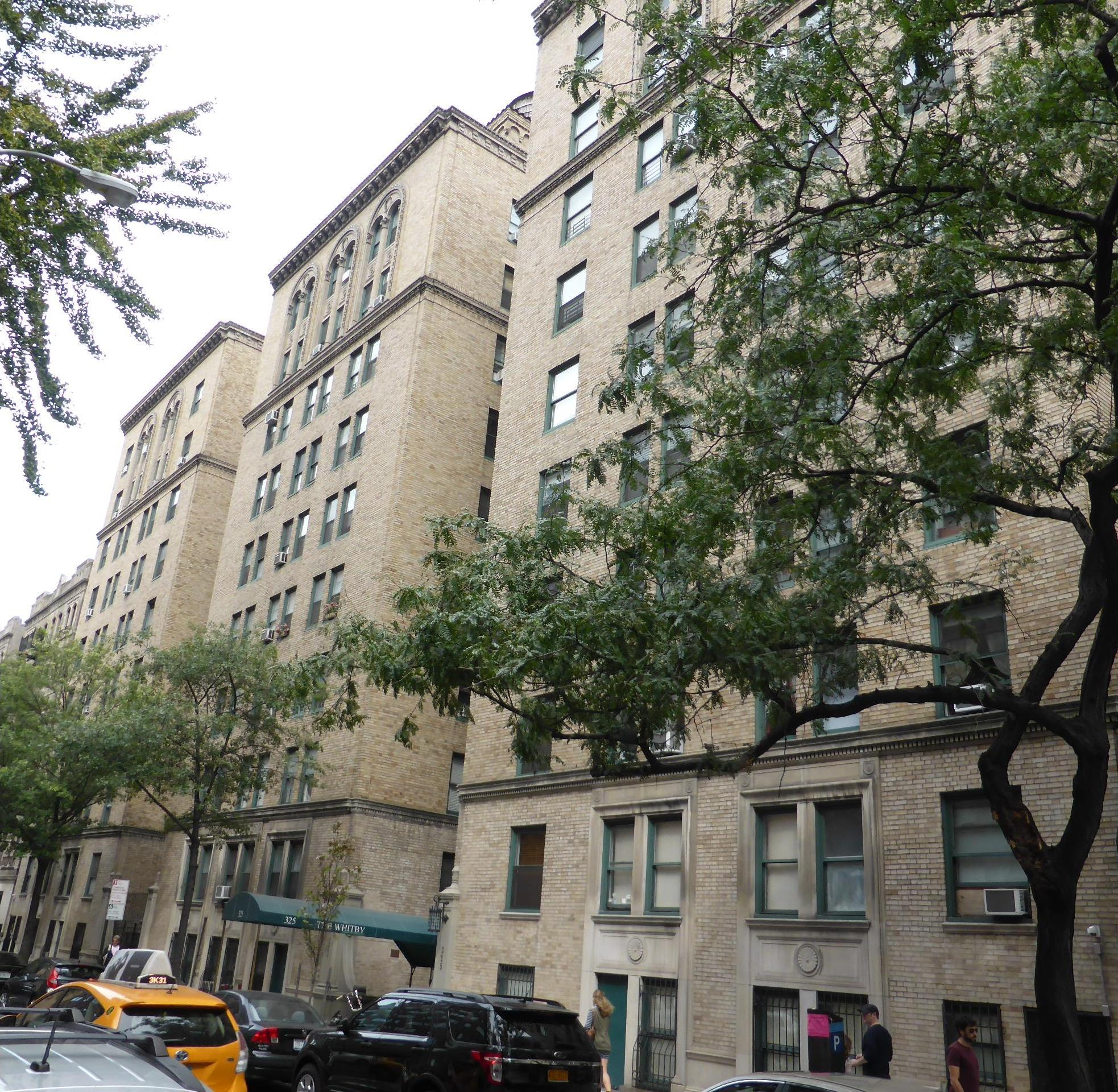 The Whitby, 325 West 45 Street in Manhattan, New York City, New York